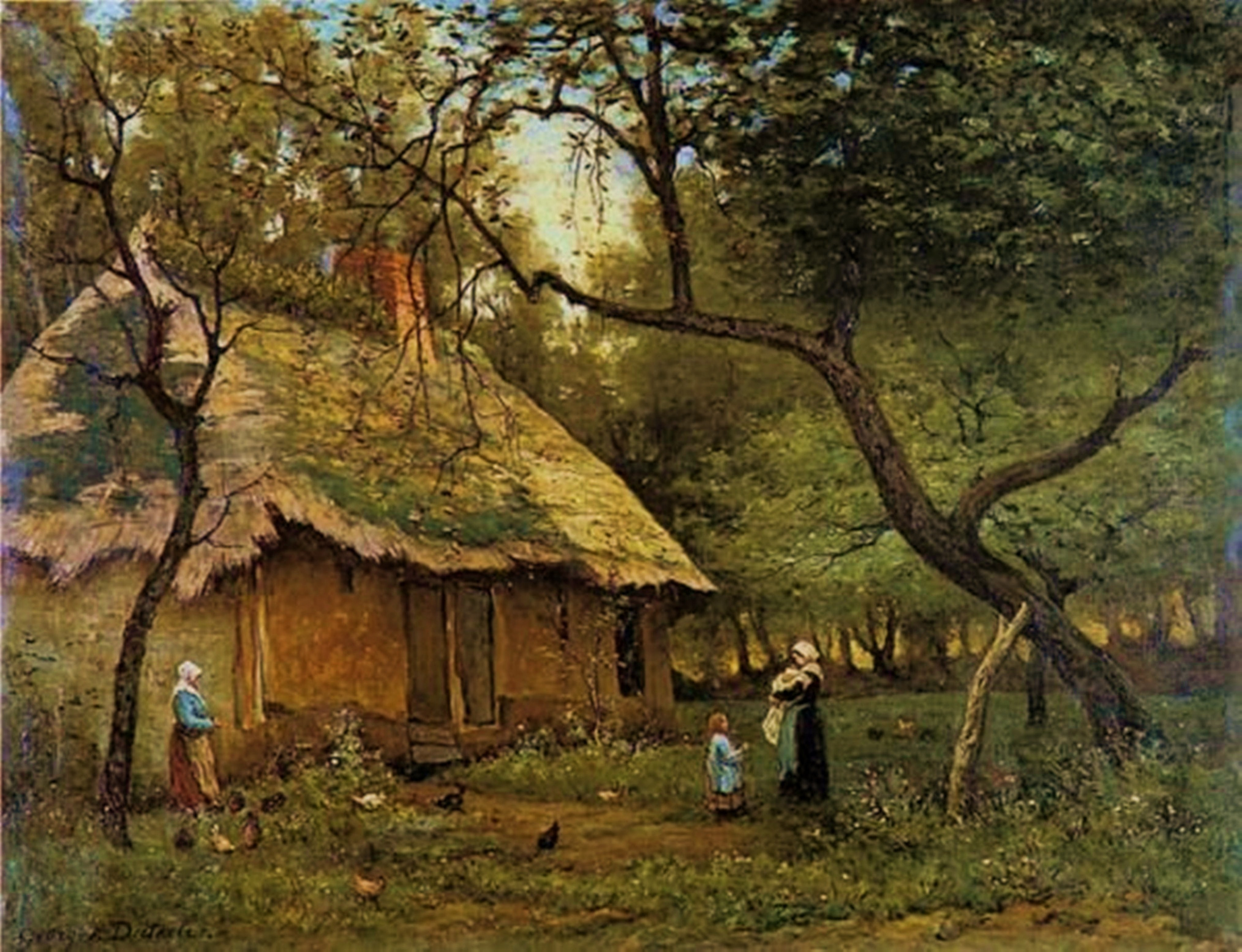 Masure in Saint-Léonard by Georges Diéterle.